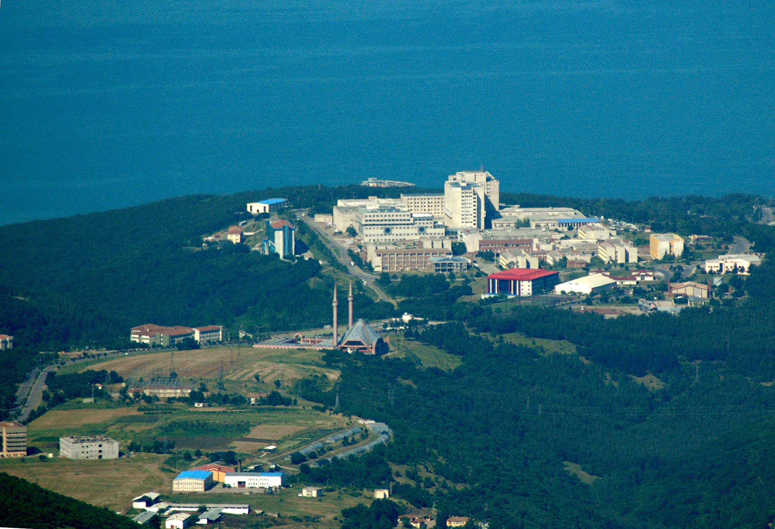 A view of the OMU